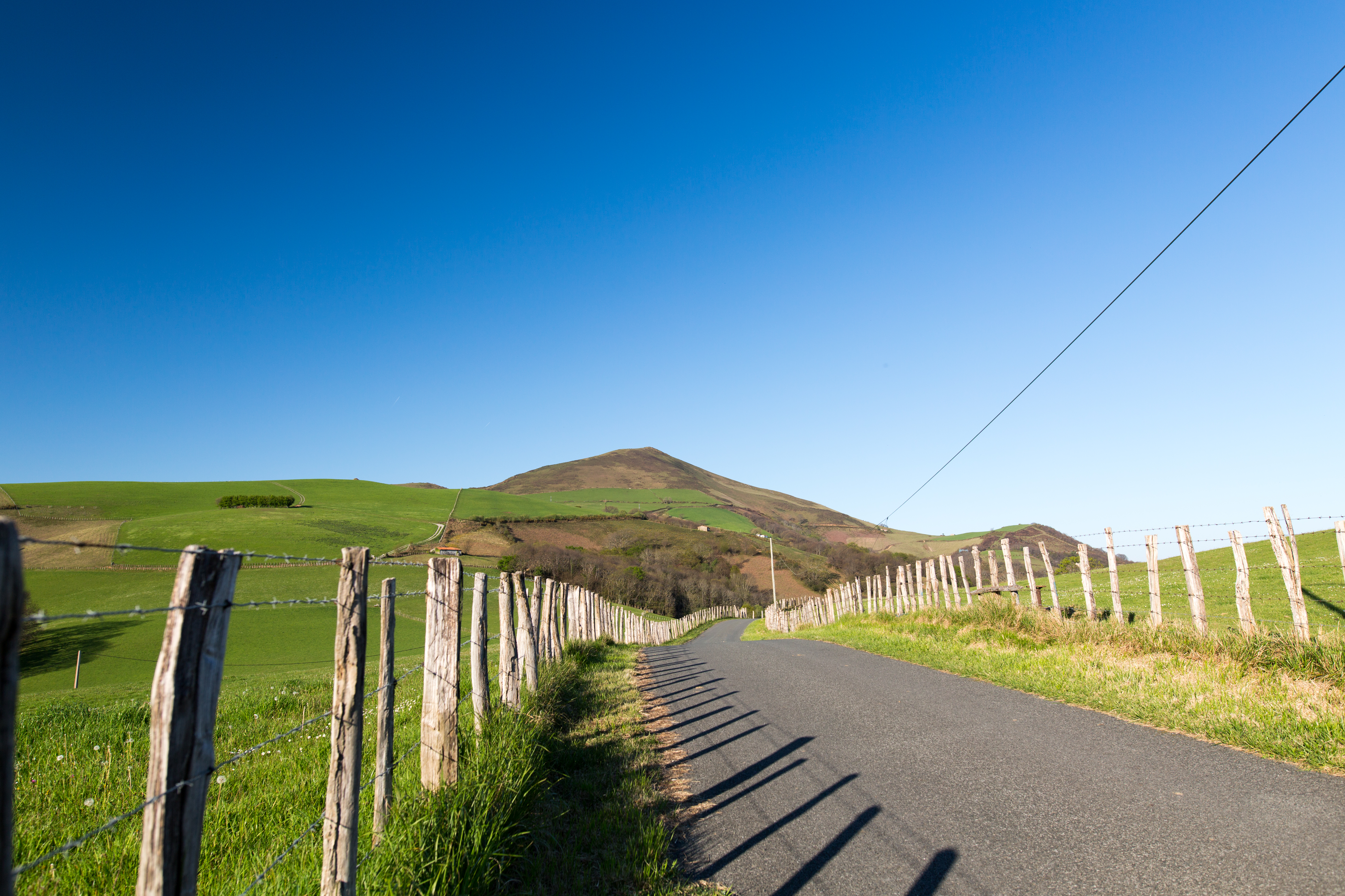 Garralda